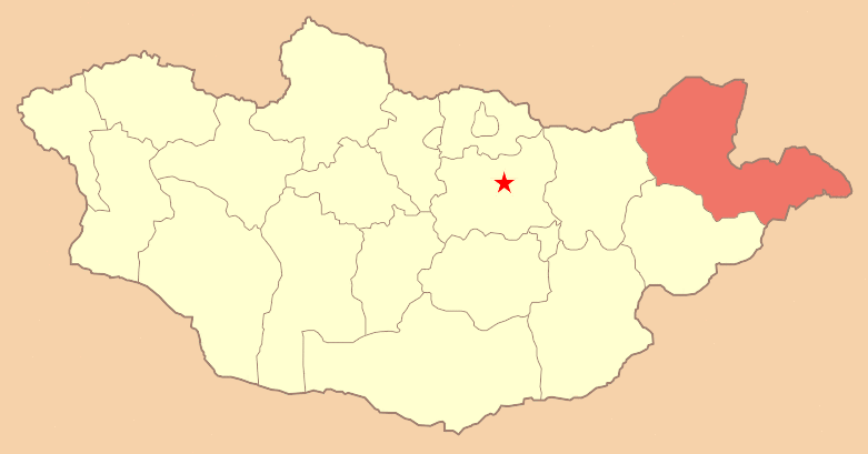 Map of Mongolia with Dornod Aimag highlighted.